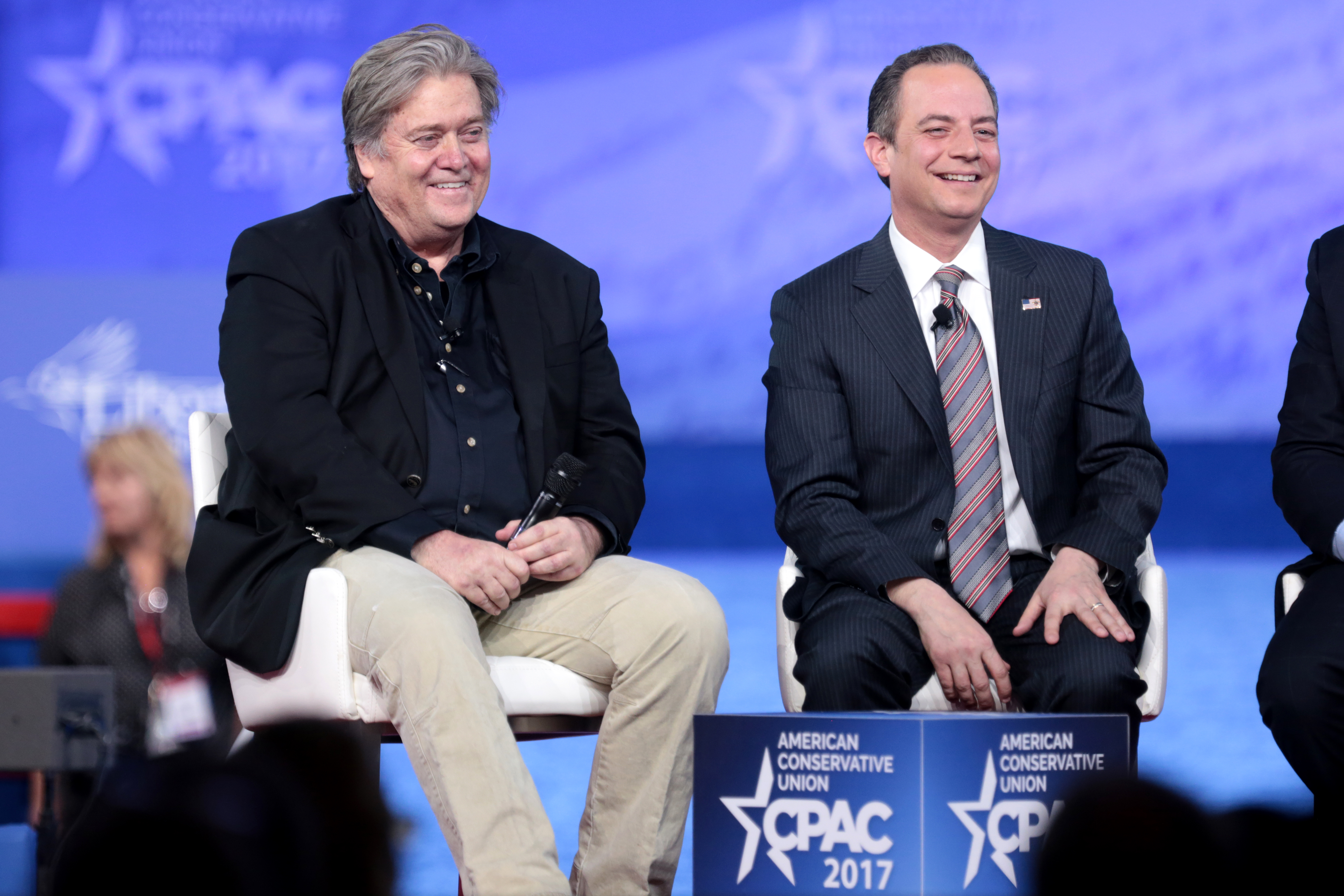 Chief White House Strategist Steve Bannon and Chief of Staff Reince Priebus speaking at the 2017 Conservative Political Action Conference (CPAC) in National Harbor, Maryland.